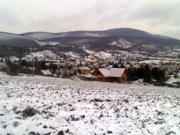 The Zengő mountain in January 2011 from Hosszúhetény village, southern Hungary.